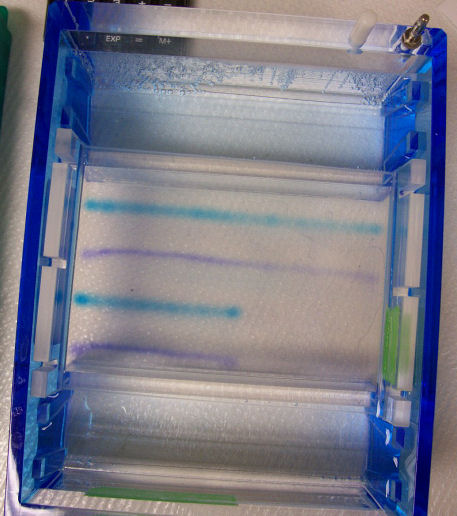 DNA samples on a polyacrylamide gel. The process to separate bands took 25 minutes at 107 V. Top line, light blue, is the added dye to samples, and lower, purple color line, are actual DNA samples that traveled towards anode, due to DNA's negative charge.